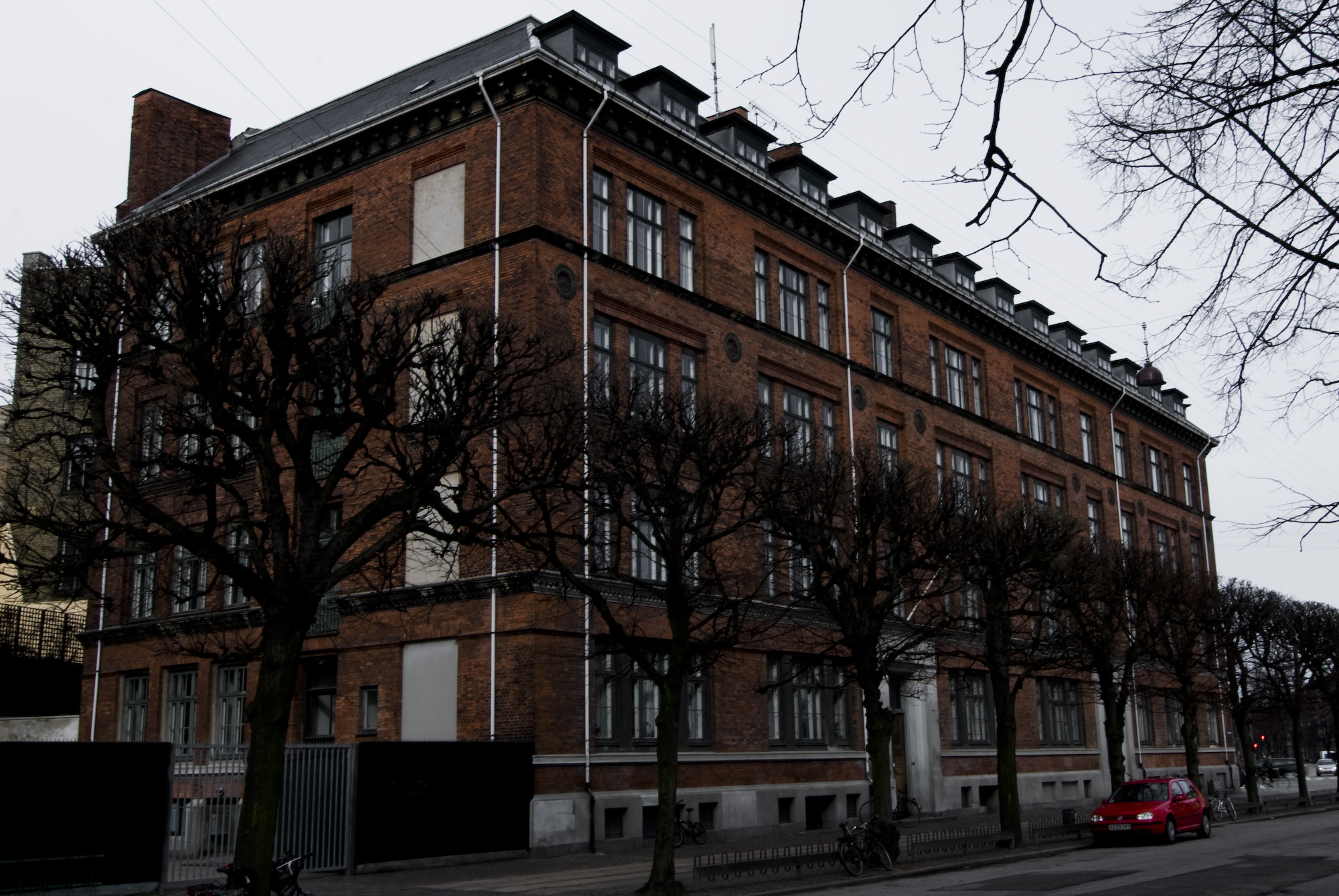 The high-school Østre Borgerdyd in Copenhagen. This photo was uploaded as a part of an conceptual idea: FindVej NoPic.